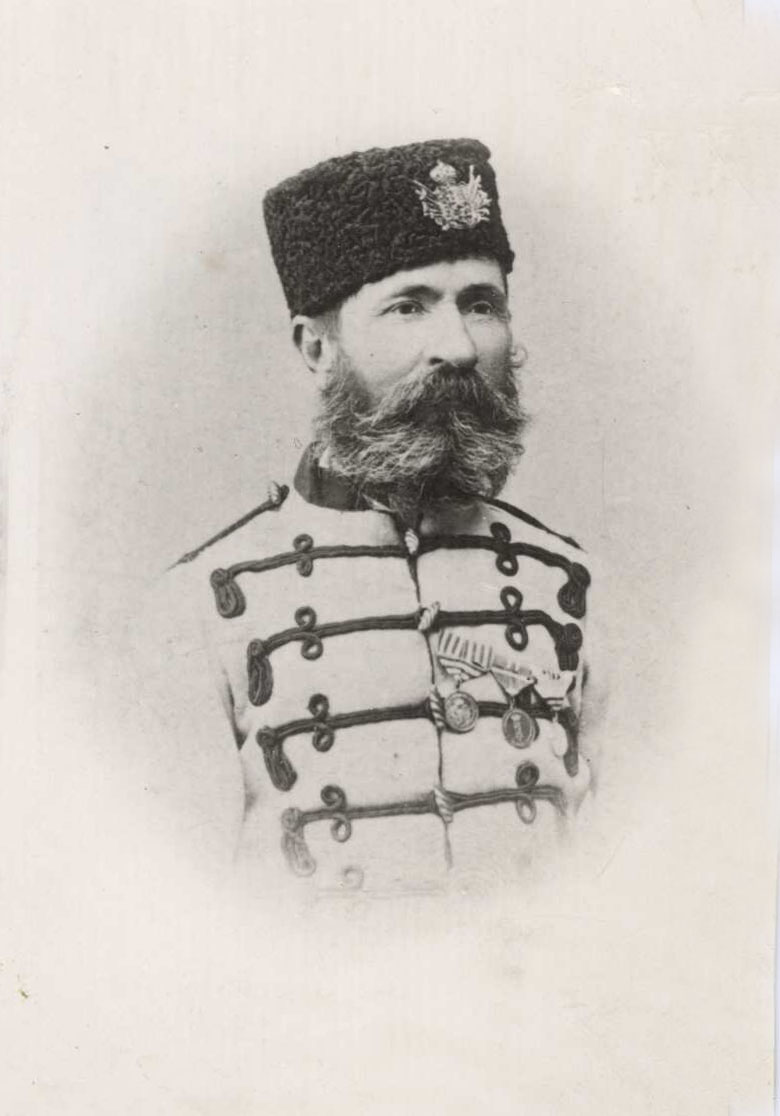 Branislav Veleshki. Born as Georgi Atanasov Levkov, Bulgarian revolutionary (1834 - 1919)